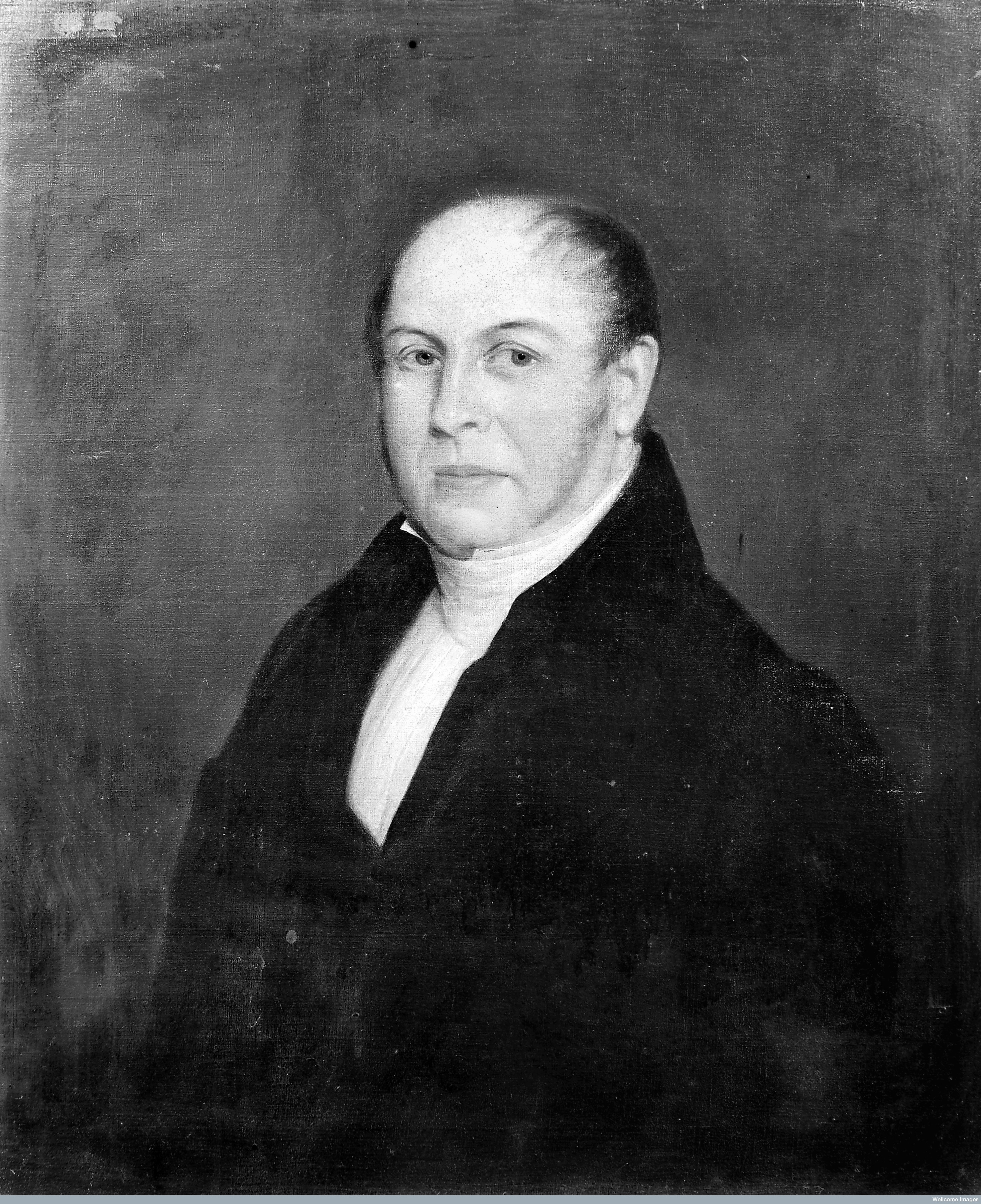 A black & white photograph from a oil portrait of Sir Andrew Halliday